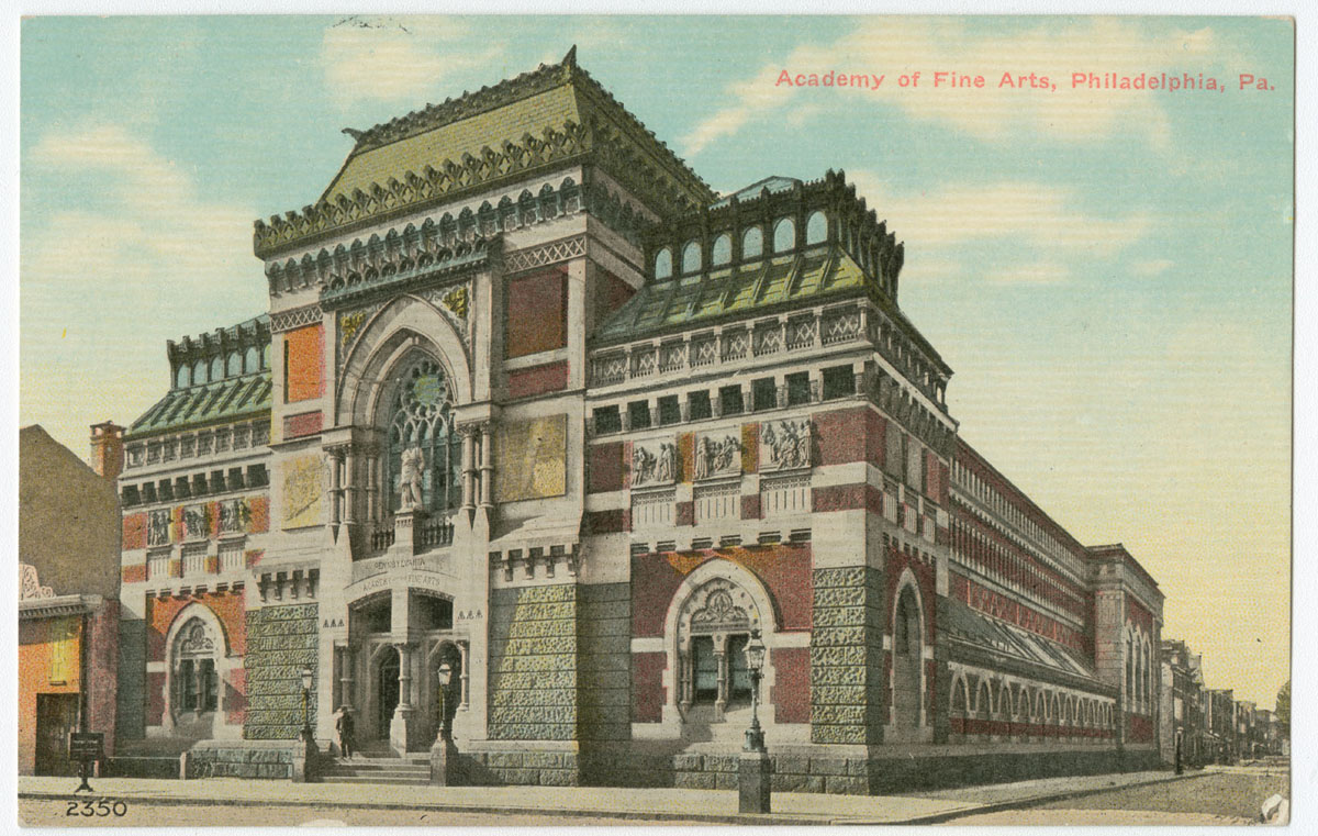 An exterior view of the Pennsylvania Academy of Fine Arts, built 1872-1876 after designs by Furness & Hewitt.